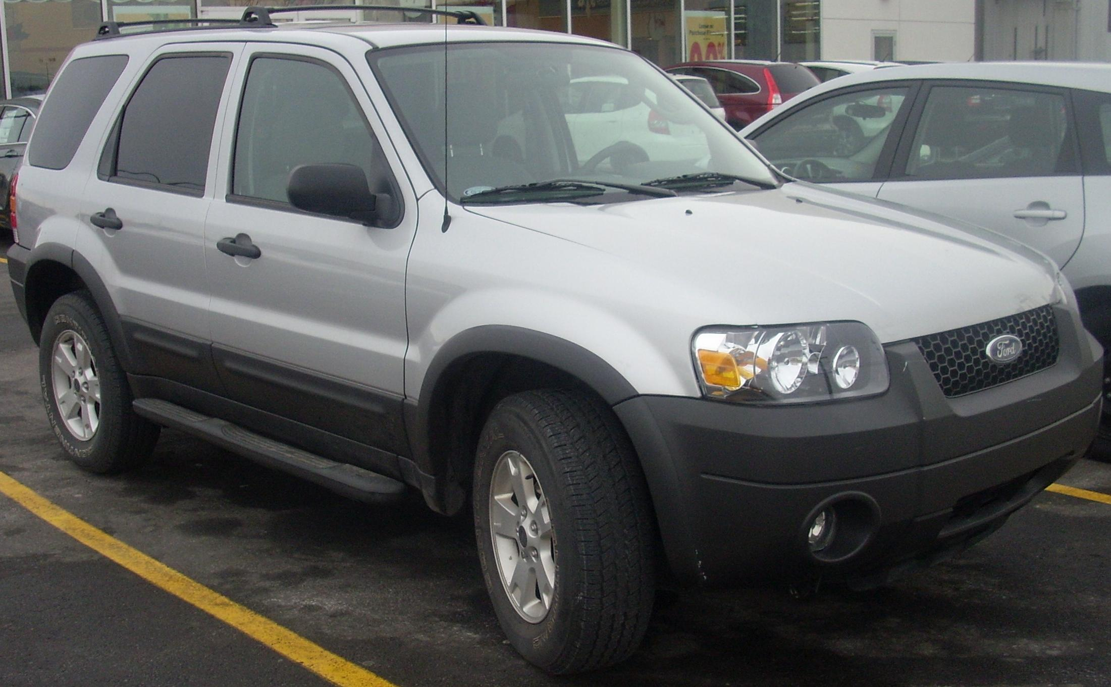 2005-2007 Ford Escape photographed in Montreal, Quebec, Canada.